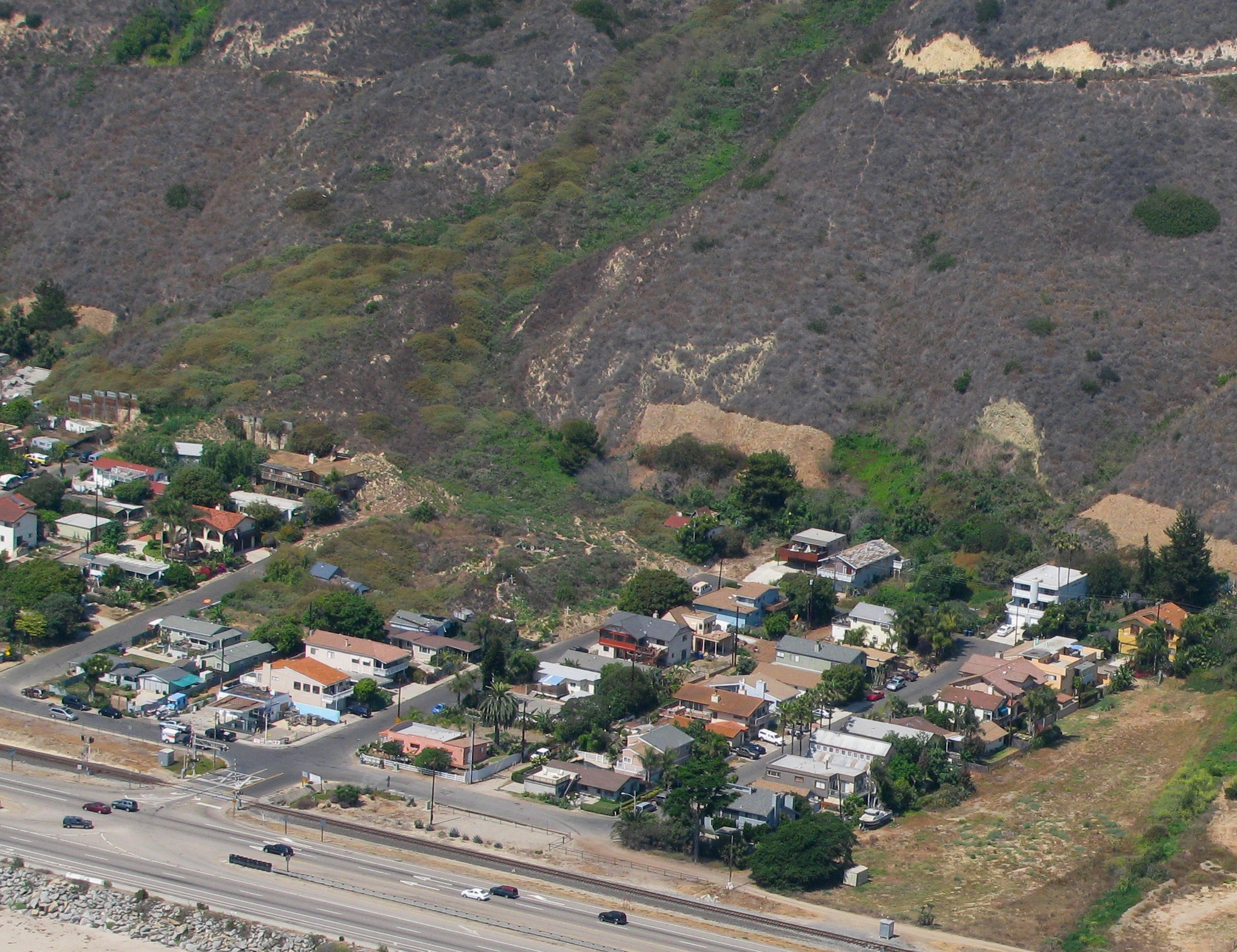 View of main 2005 La Conchita landslide, from the air just offshore. Notice the crosses where people died. Photo by self, July 31, 2009, GFDL/equiv.